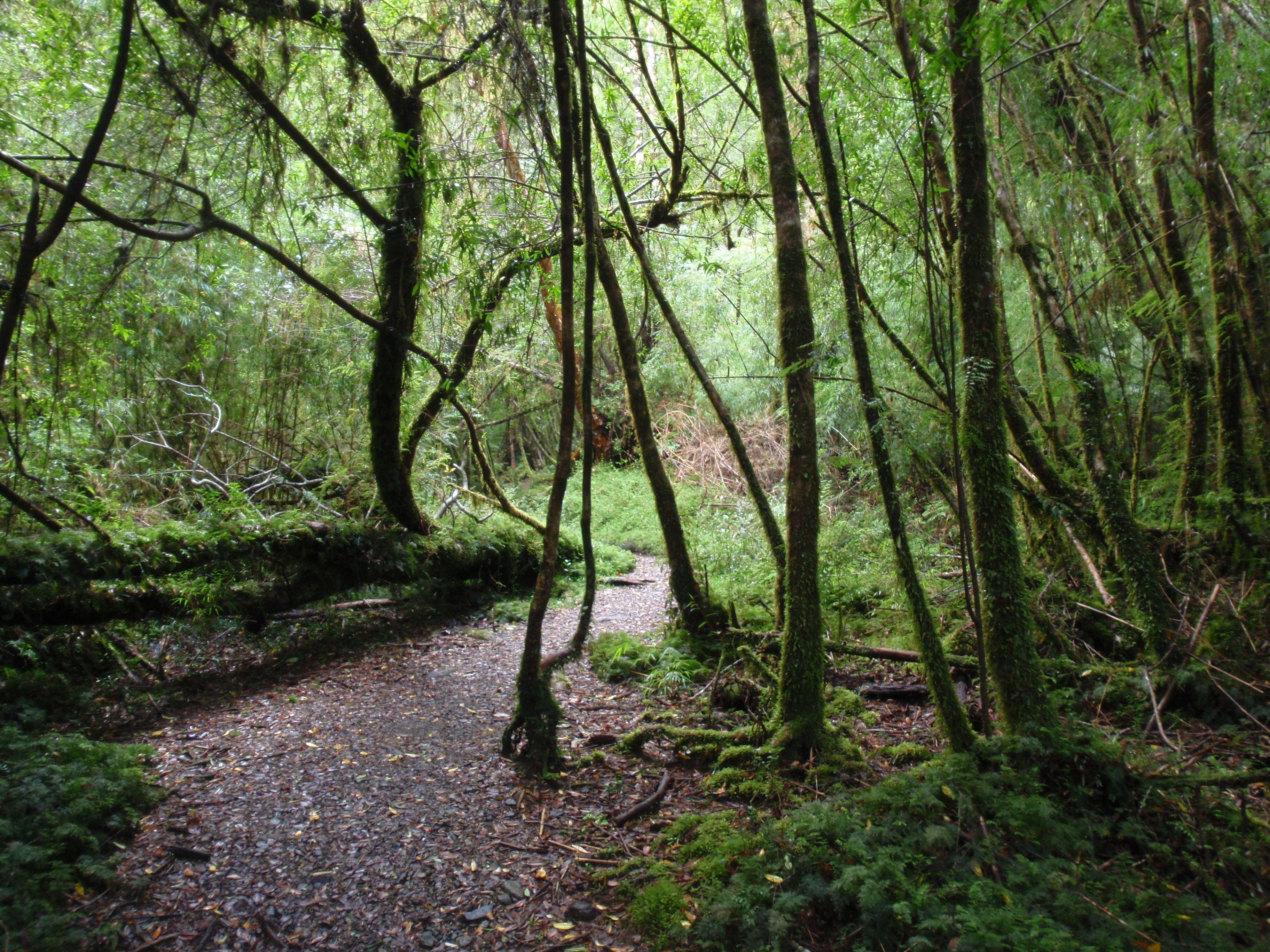 Understory in Alerce Andino National Park in southern Chile.